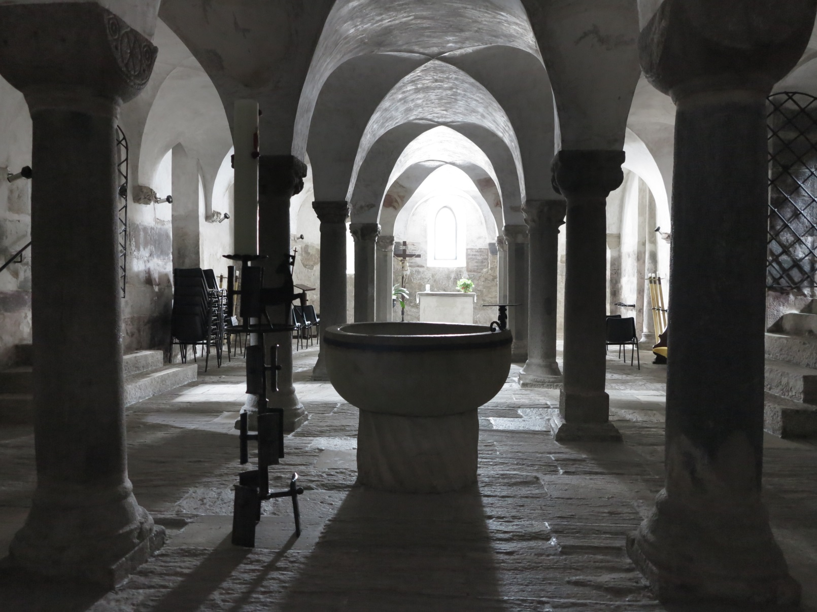 Village of Innichen, Monastery Church